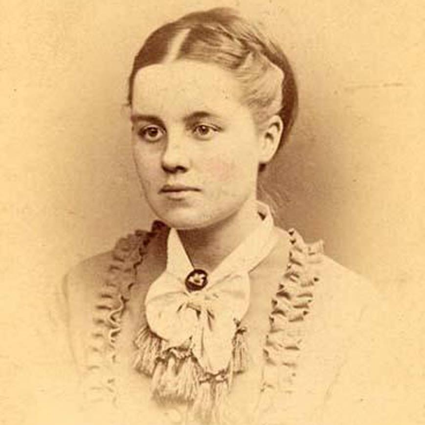 Depicted person: Helen Magill White – First American female Ph.D.